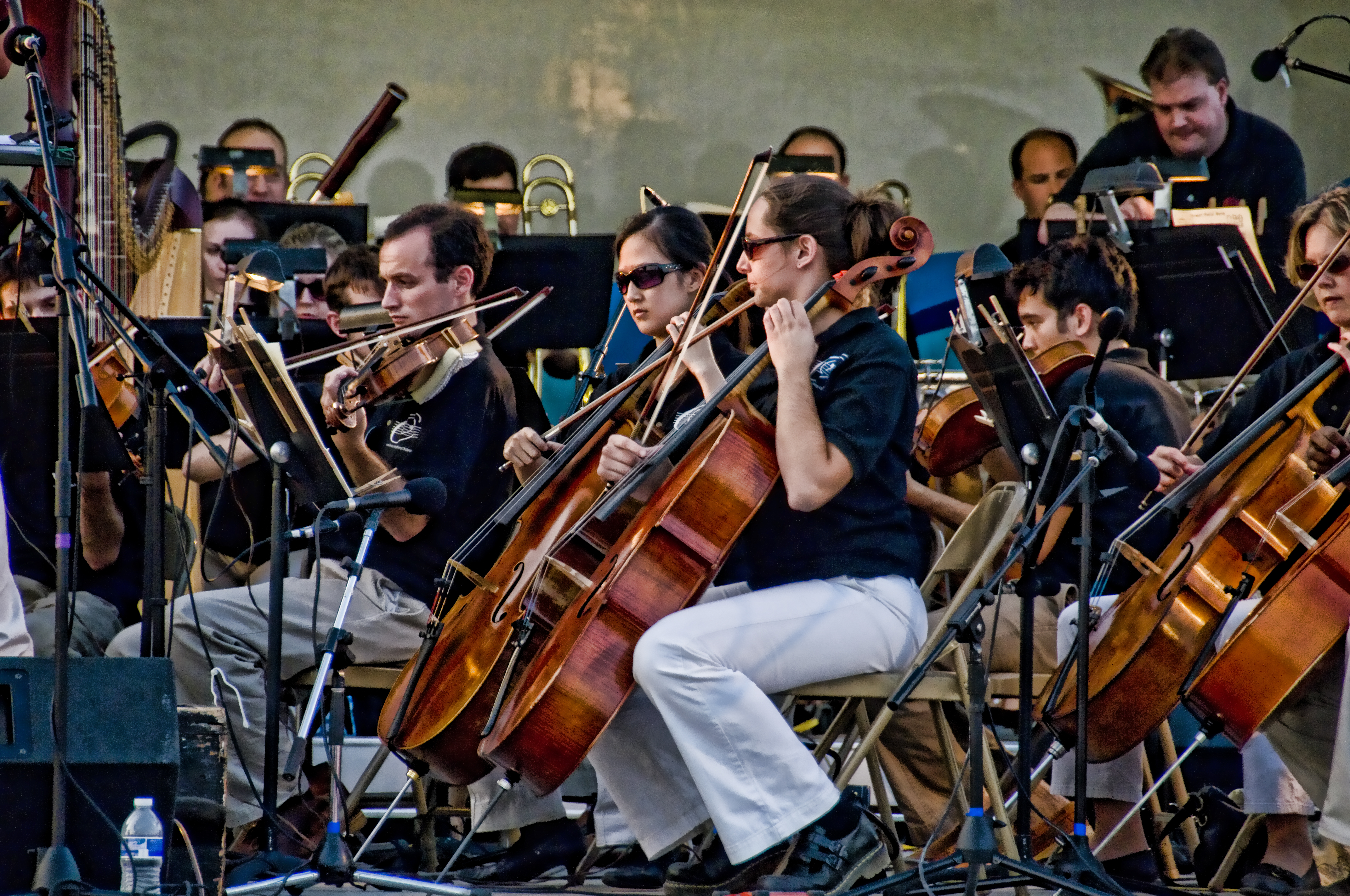 Band playing during July 4th festivities, 2010.